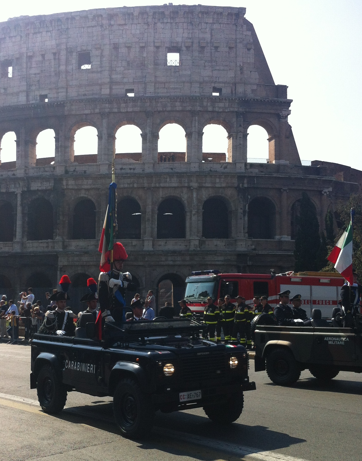 Carabinieri War Flag